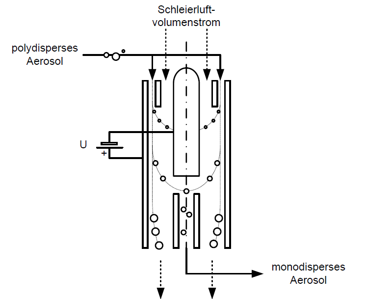 Principle of operation of the Differential Electrical Mobility Classifier, also known as Differential Mobility Analyzer